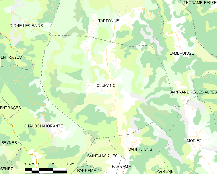 Map commune FR insee code 04059.png Légende